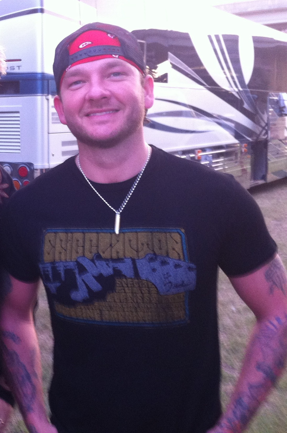 Stoney LaRue